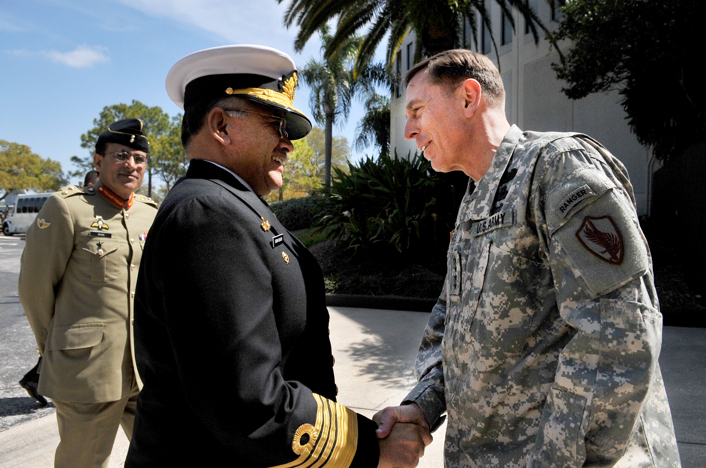 TAMPA, Fla. (March 23, 2010) Chief of Naval Staff of the Pakistan Navy Adm. Noman Bashir is greeted by Gen. David Petraeus, commander of U.S. Central Command, in Tampa, Fla. The two military officials discussed the strategic partnership between Pakistan and the United States and their commitment to strengthening the bonds between the U.S. and Pakistan Navies. (U.S. Navy photo/Released)